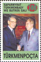 Fifth Anniversary of Independence.